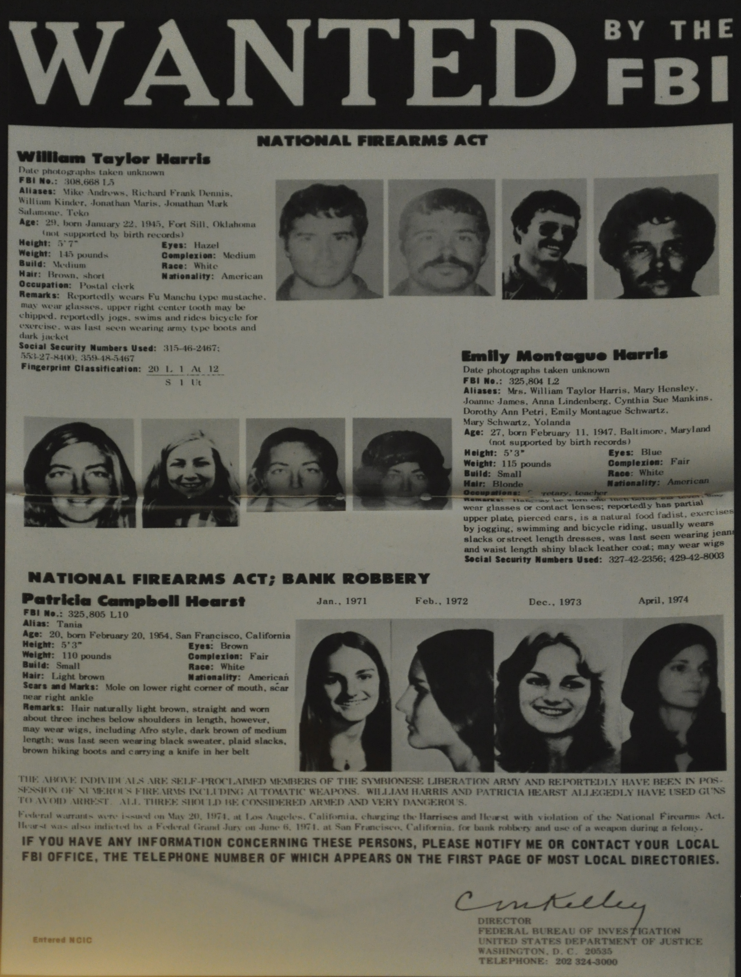 FBI "Wanted" poster for members of the Symbionese Liberation Army: William Taylor Harris, Emily Montague Harris, and Patti Hearst.